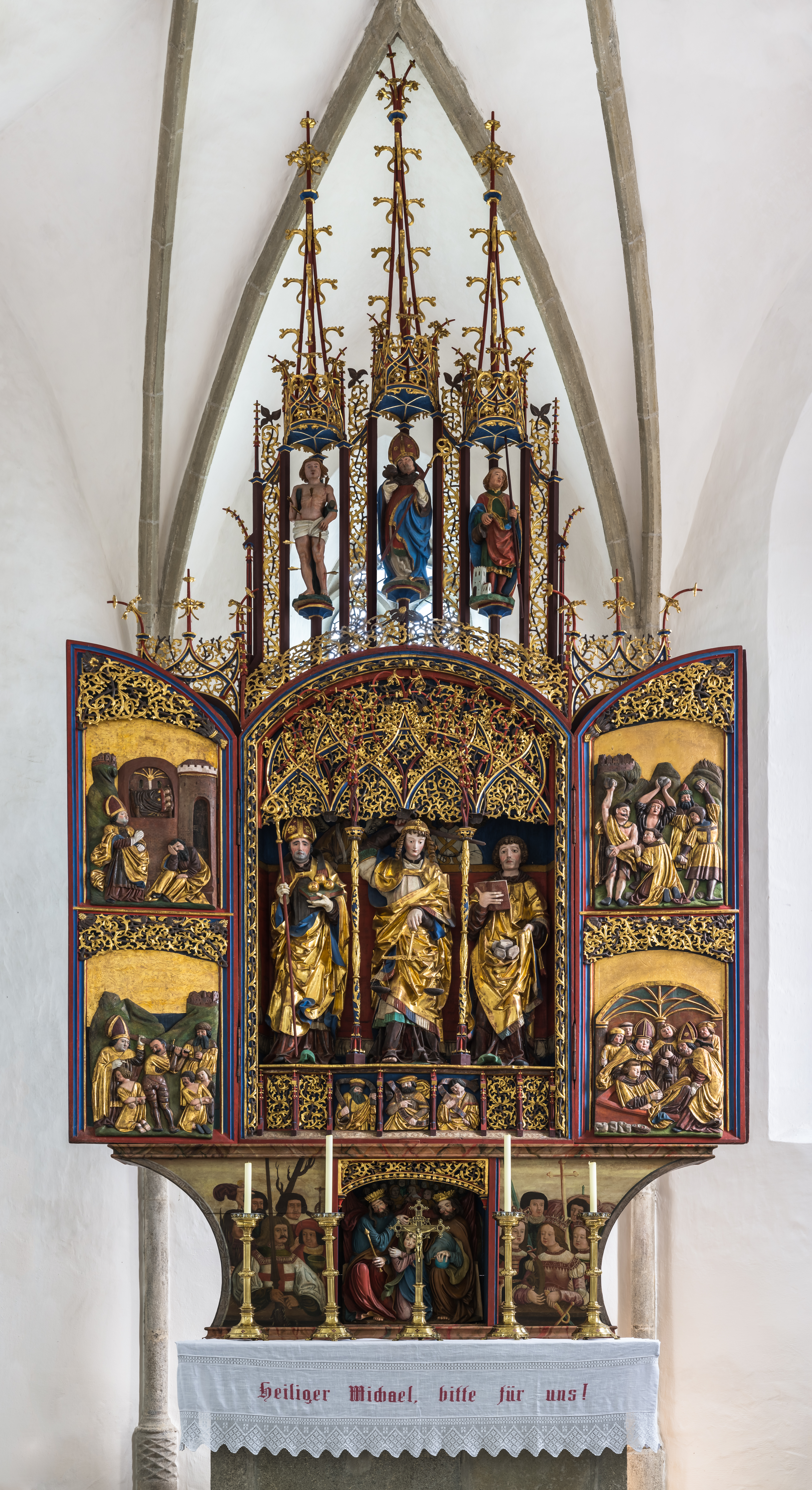 Winged altar at the subsidiary church St. Michael ob Rauchenödt, municipality of Grünbach, Upper Austria. Anonymous master, around 1517.